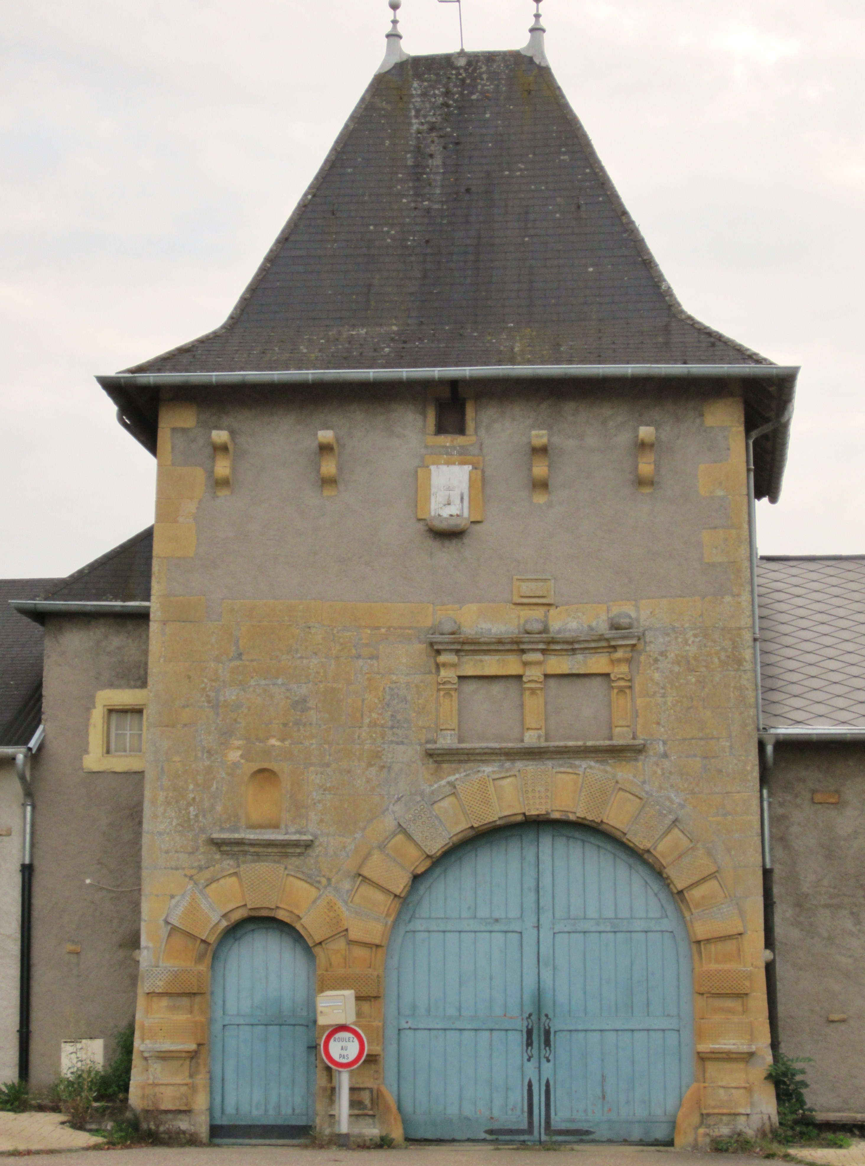 Description porte chateau Verneville Date2 September 2011Sourcemon appareil photoAuthorAimelaimePermission (Reusing this file) porte chateau Verneville